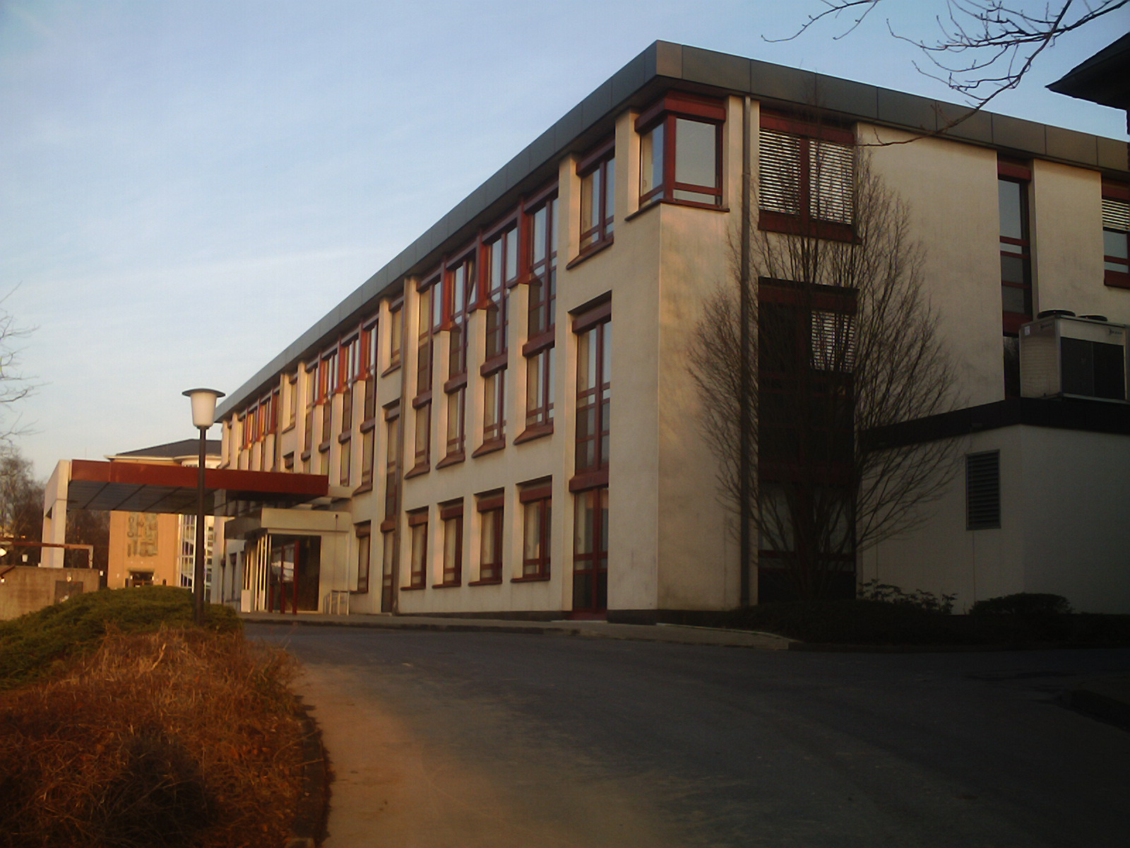 Rathaus Wülfrath